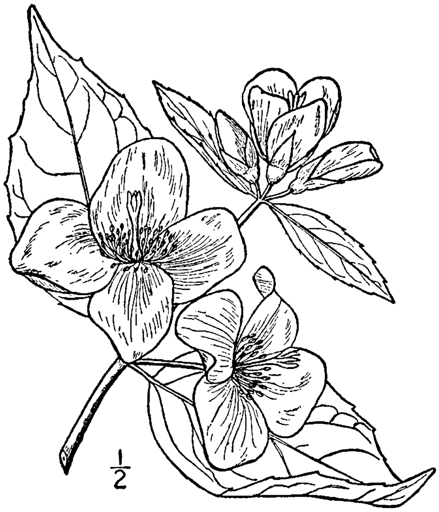 Philadelphus inodorus